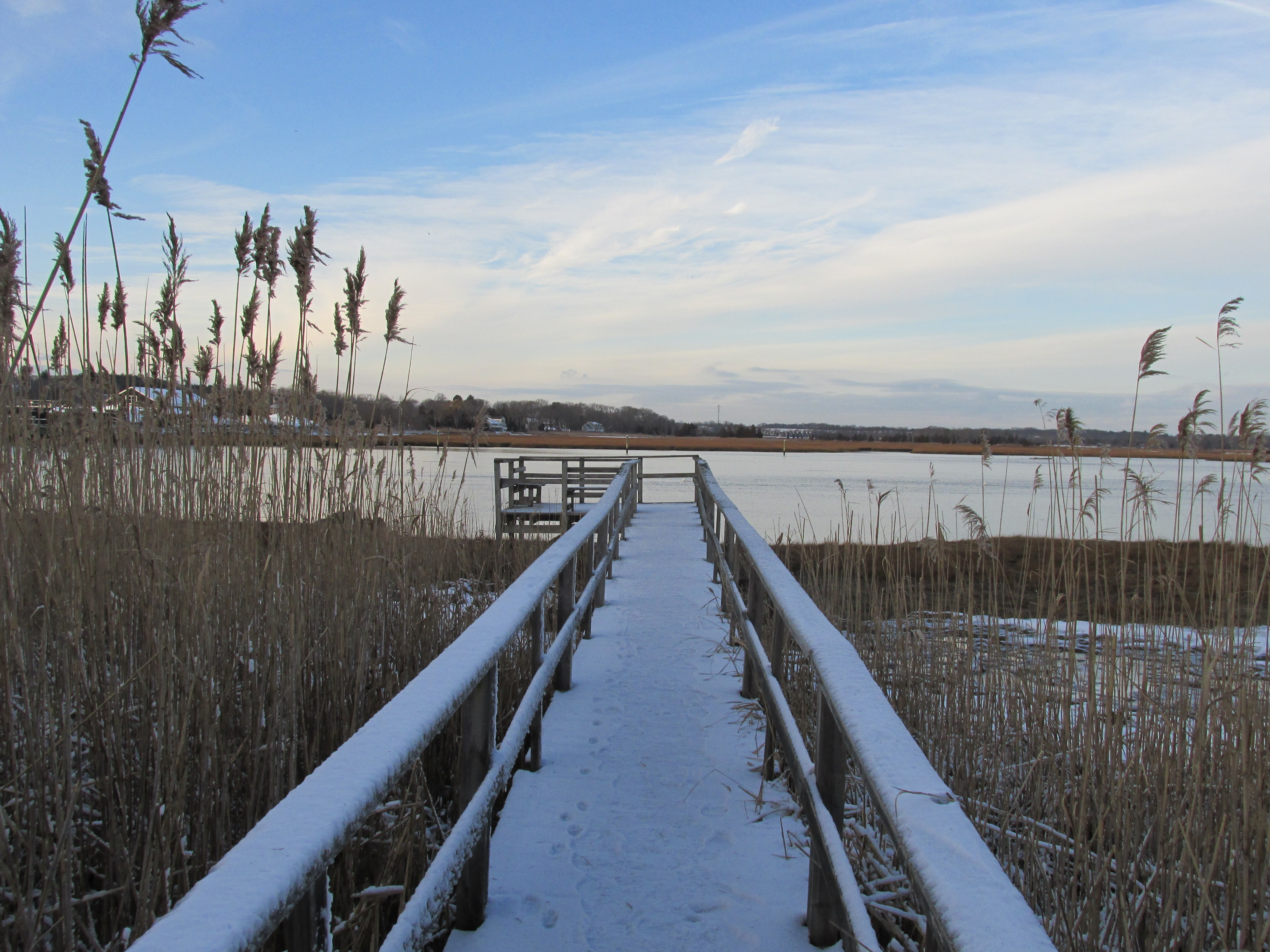 Observation platform, North River Wildlife Sanctuary, Marshfield Massachusetts